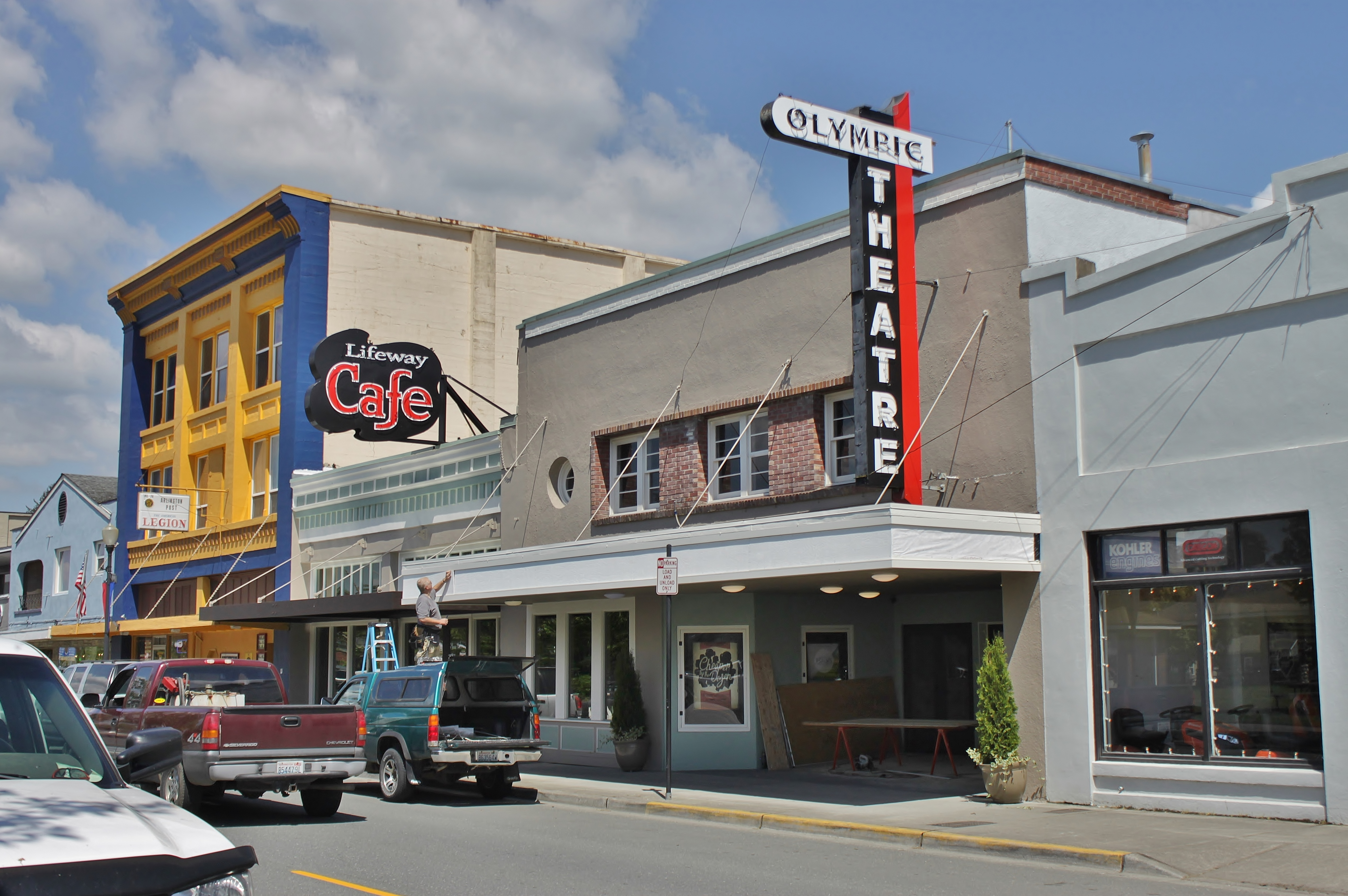 The historic Olympic Theatre in downtown Arlington, which operated as a single-screen cinema from 1939 to 2014.